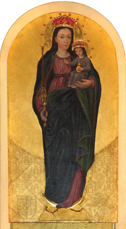 Our Lady of Roasry in Dominican Church of Saint Dominic in Warsaw-Służew